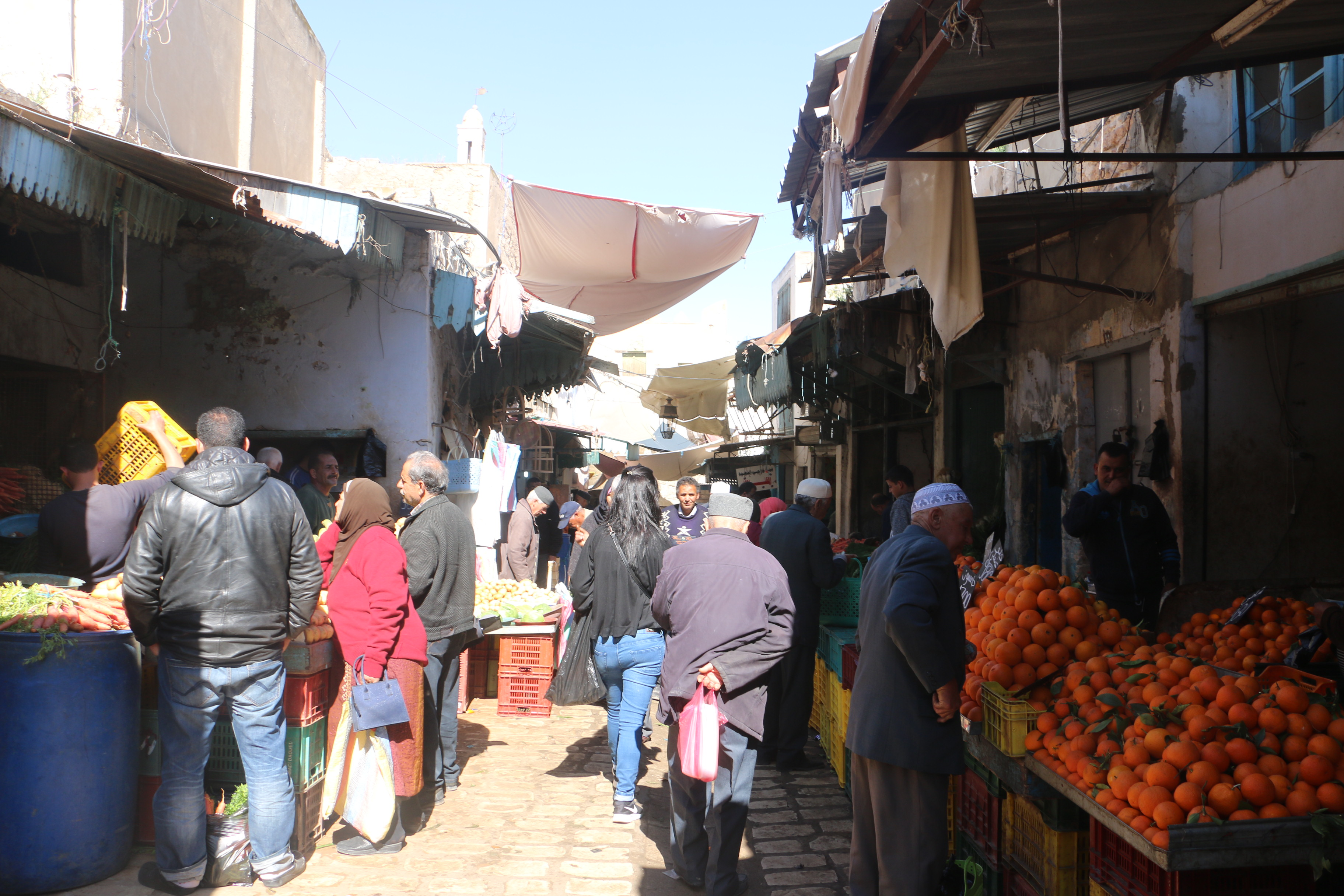 Souk khothra